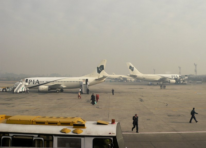 Benazir Bhutto International Airport: Passengers boarding the PIA 737-340, ready to depart for Samungli Airfield. Other aircraft visible in the background are Airbus 310 and Boeing 747-200. Photo by Waqas Usman. More images at and